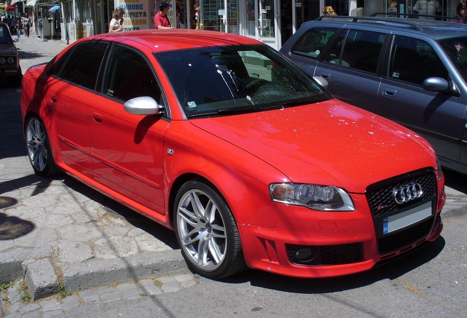 Audi RS4 Sedan